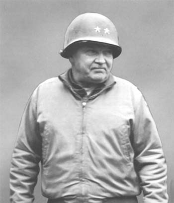 General Wade H. Haislip as a Major General from [1]